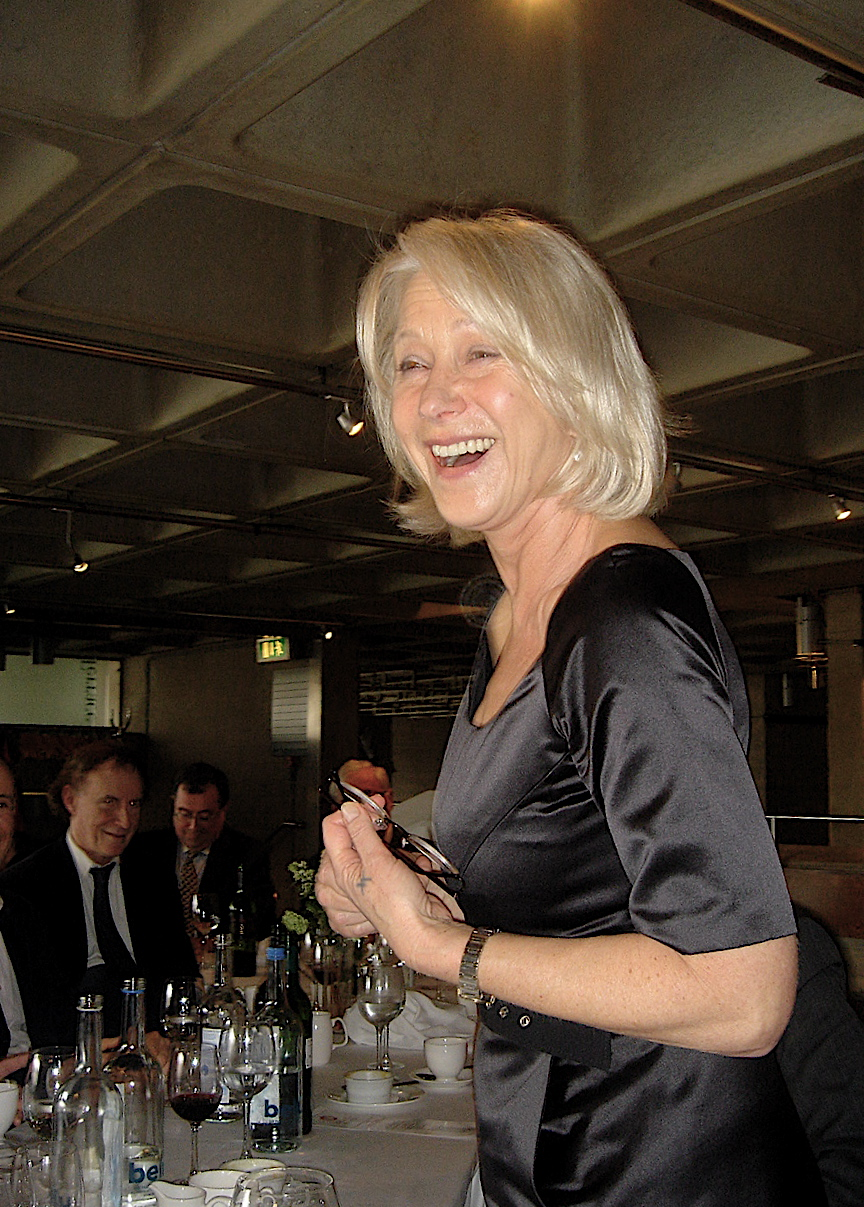 Image of actress Helen Mirren, taken at the National Theatre's Terrace Restaurant in London, on the occasion of the Critics' Circle awards luncheon on April 10 en:2007. The photograph was taken by John Reiss,[1] who has indicated to User:John Thaxter that he is happy for it to be released into the public domain; I, User:Angmering, am uploading it on Thaxter's behalf. Any queries should be directed to either User talk:John Thaxter or User talk:Angmering.